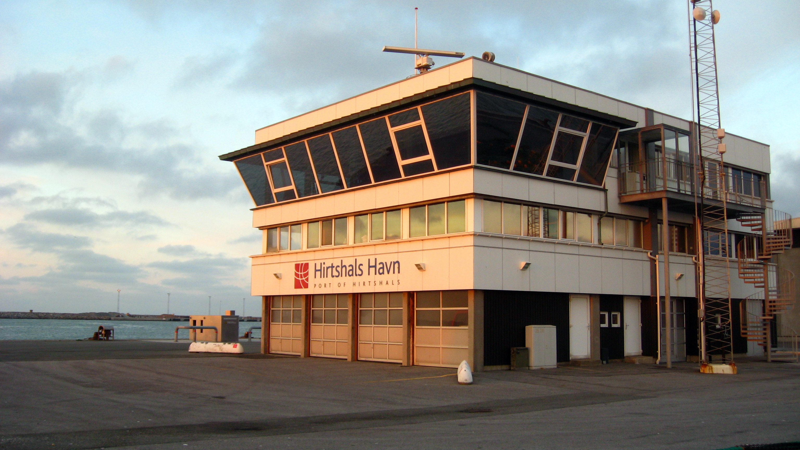 Port of Hirtshals, Denmark